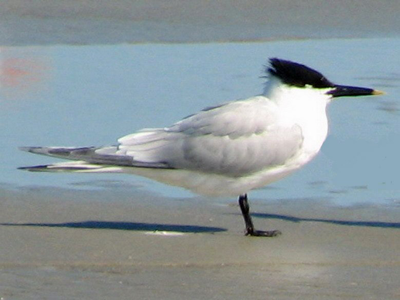 Cabot's Tern (Thalasseus acuflavidus) in North Carolina. Also known as Sandwich Tern (Thalasseus sandvicensis acuflavida)